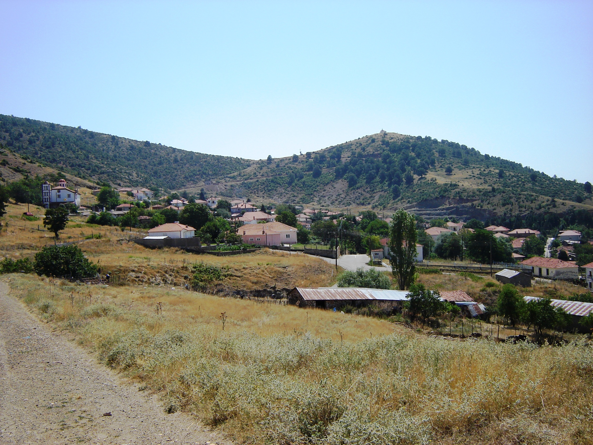 Overlooking the village